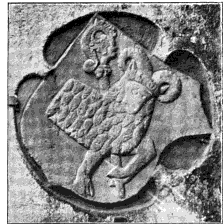 Coat of arms of bishop de;Konrad Loste (+ 1503) in the cloister of Schwerin Cathedral